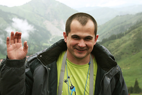 Photo of the film director S. Ryabov